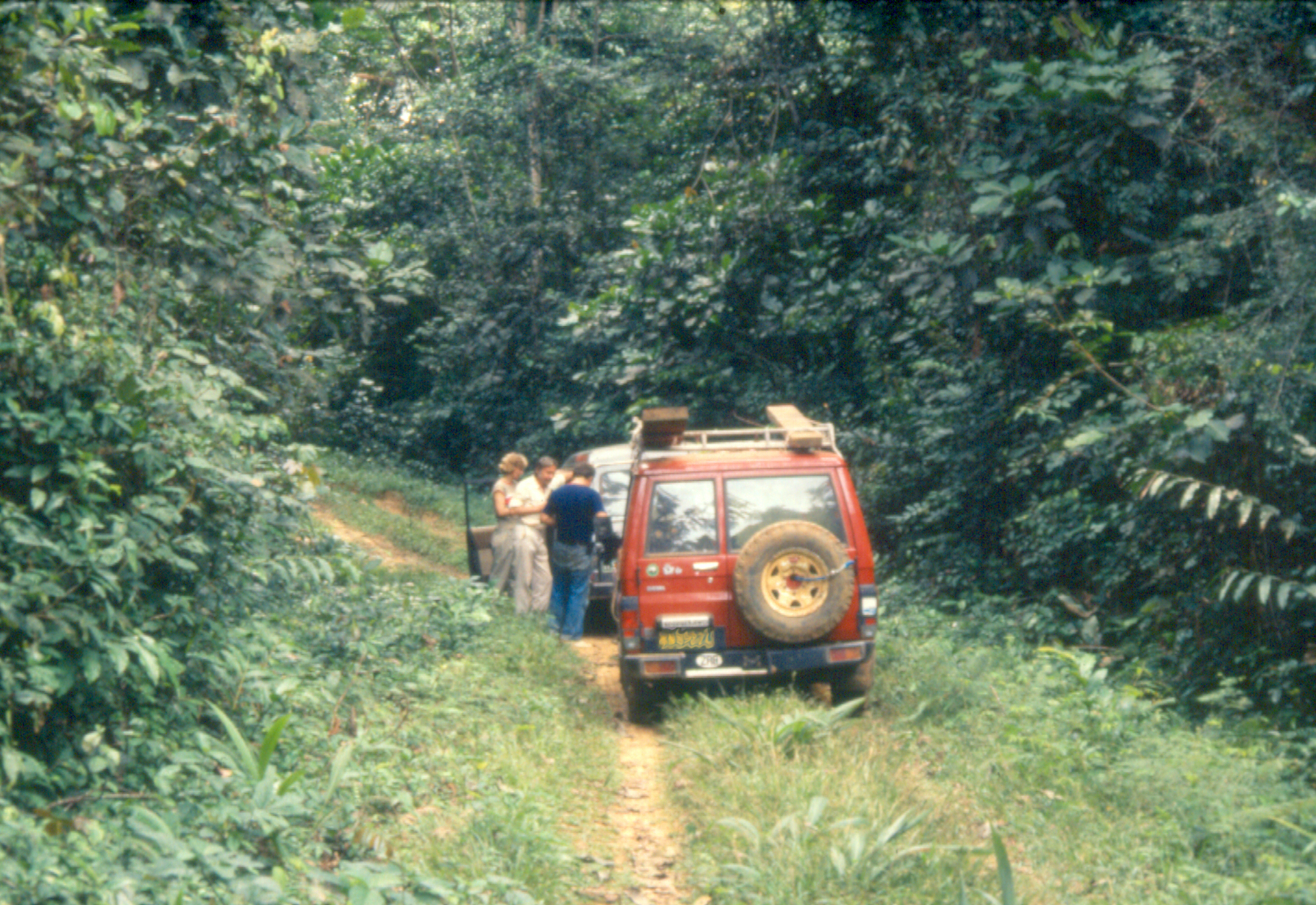 The road between Ubundu (ex Ponthierville) to Kisangani (ex Stanleyville) in Zaire (now Congo). Digitized slide